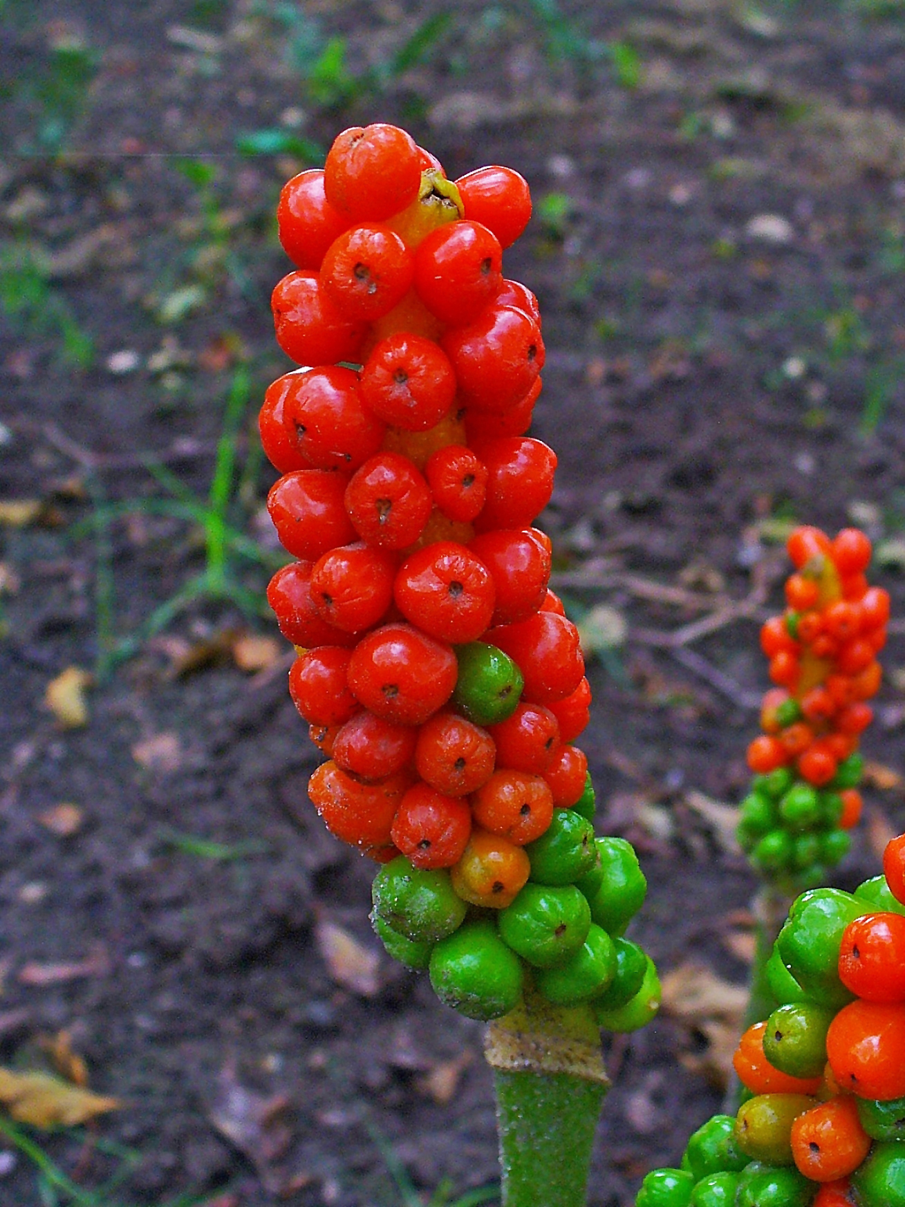 Arum maculatum, Araceae, Wild Arum, Lords and Ladies, Jack in the Pulpit, Devils and Angels, Cows and Bulls, Cuckoo-Pint, Adam and Eve, Bobbins, Naked Boys, Starch-Root, Wake Robin, fruits; Karlsruhe, Germany. The fresh subterranean parts are used in homeopathy as remedy: Arum maculatum (Arum-m.)